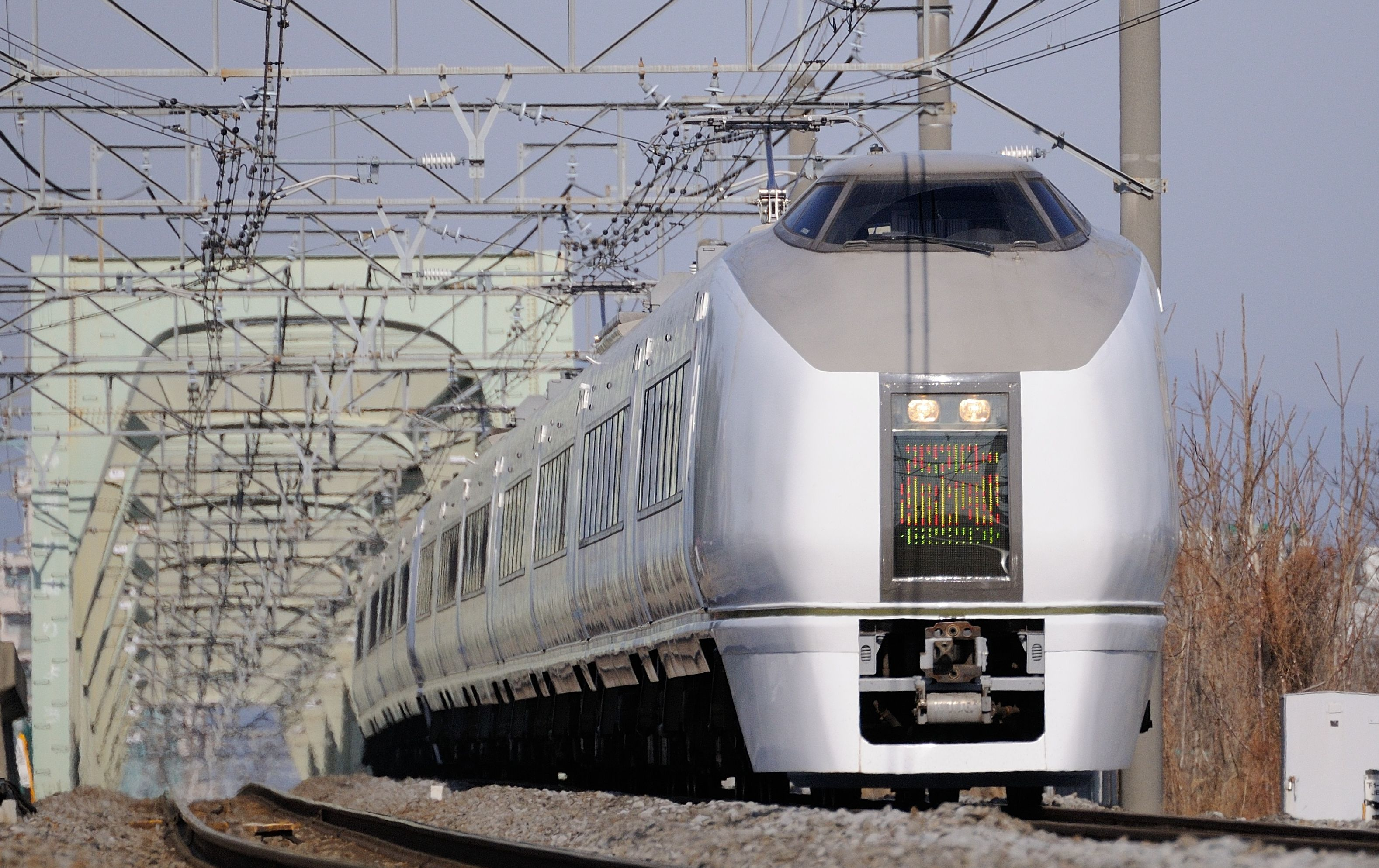 A JR East 651-1000 series EMU 11-car formation on a Swallow Akagi limited express service